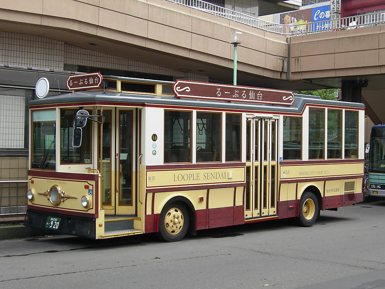 Sendai city bus Hino KK-RJ1JJHK（Rainbow） "Roople Sendai”